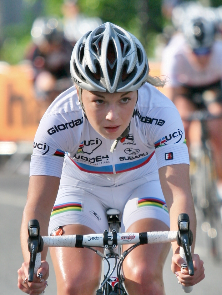 English cyclist Lucy Garner racing in the Oxford round of the 2012 Halfords Tour Series, England.